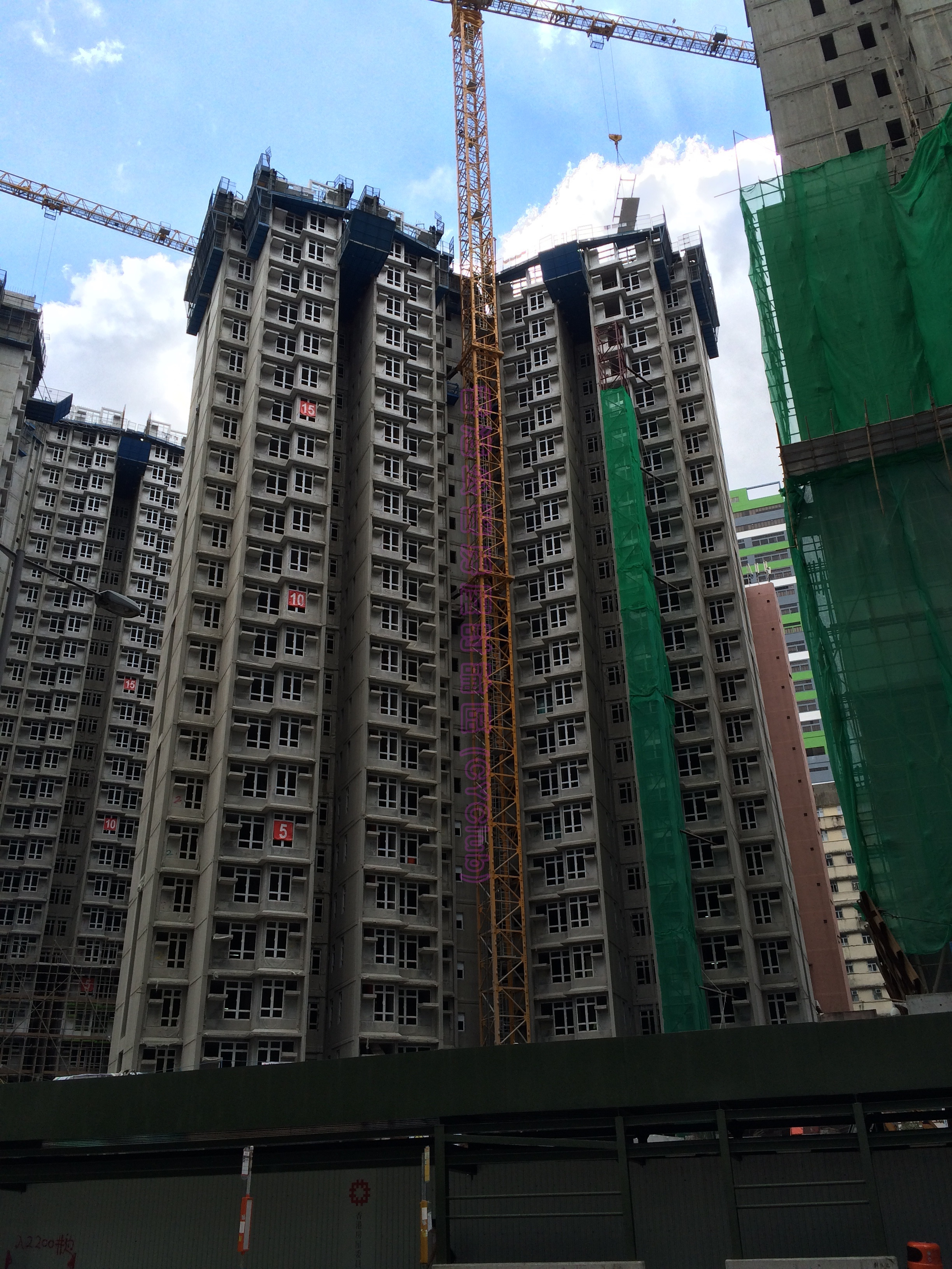 This is my own photo.